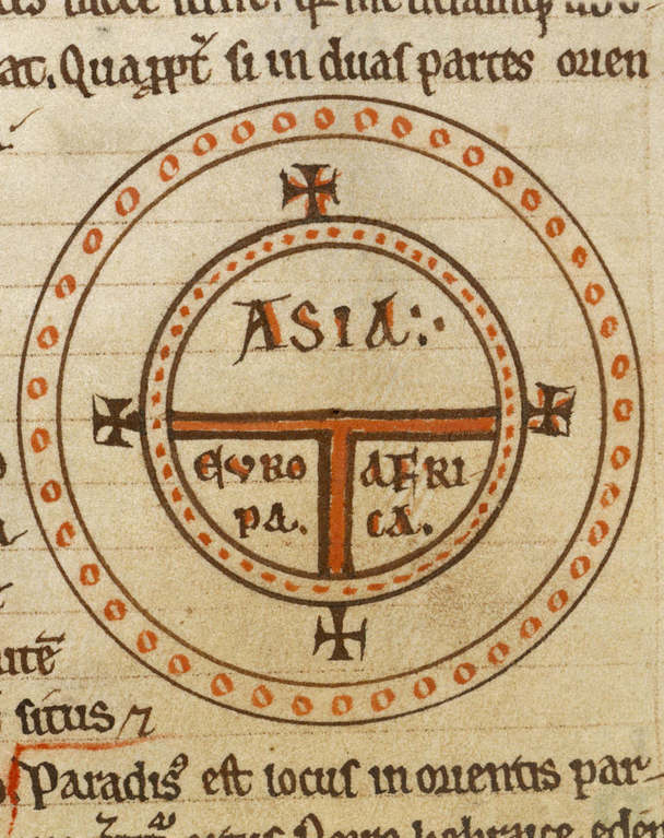 T and O style mappa mundi (map of the known world) from the first printed version of Isidorus' Etymologiae (Kraus 13). The book was written in 623 and first printed in 1472 at Augsburg by one Günther Zainer (Guntherus Ziner), Isidor's sketch thus becoming the oldest printed map of the occident. Note: T-O-maps are typically displayed "East-up", show Jerusalem at the center and the paradise at the outmost East, balanced by the pillars of Hercules at the outmost West. Title of Book: Etymologies Author: Isidore, Saint, Bishop of Seville Production: 12th century Language: Latin From The British Library; Record Number - c5933-06; Shelfmark - Royal 12 F. IV; Page Folio Number - f.135v.